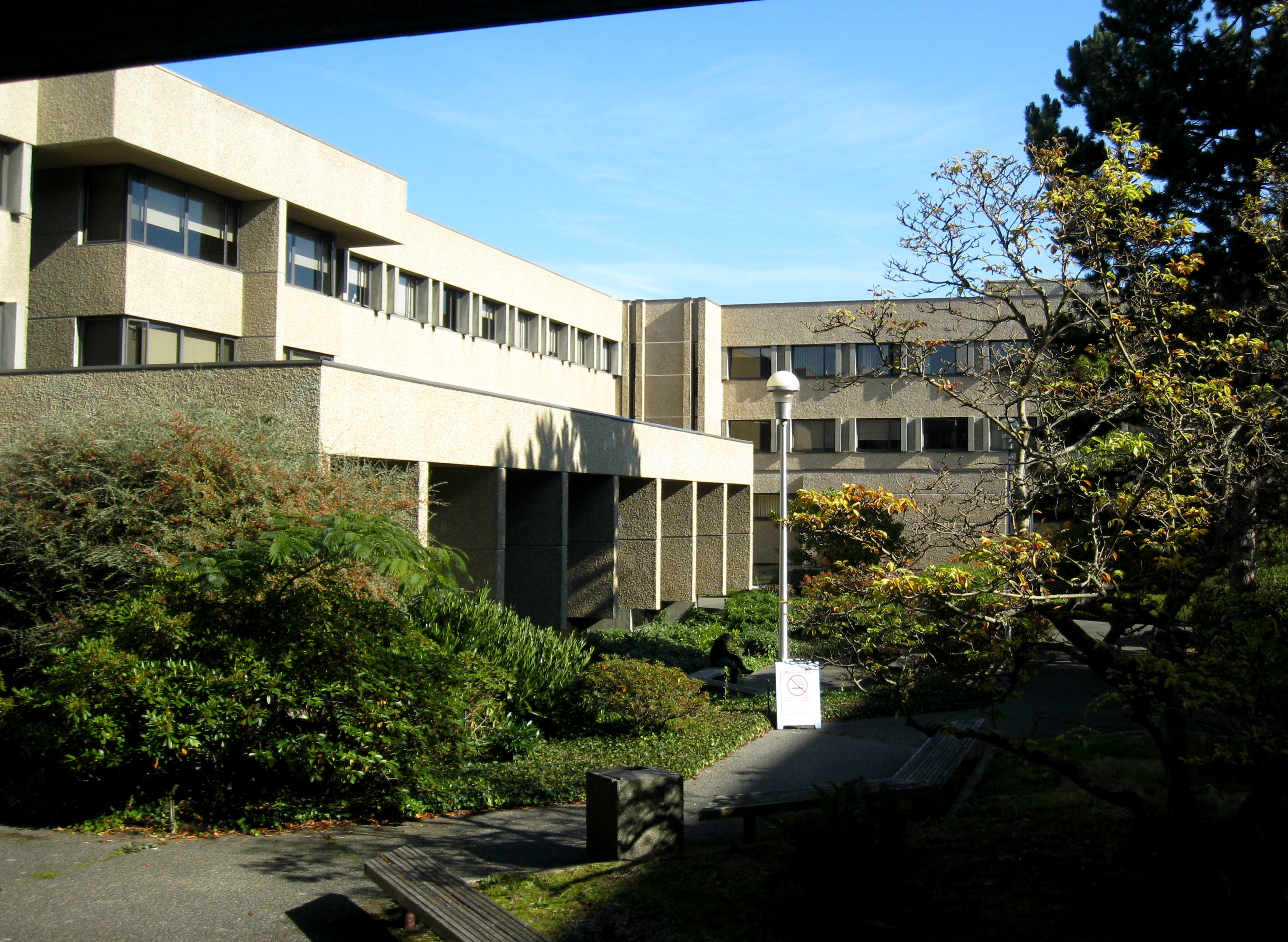 Clearihue Inner Court. READ MORE IN PANORAMIO/COMMENT